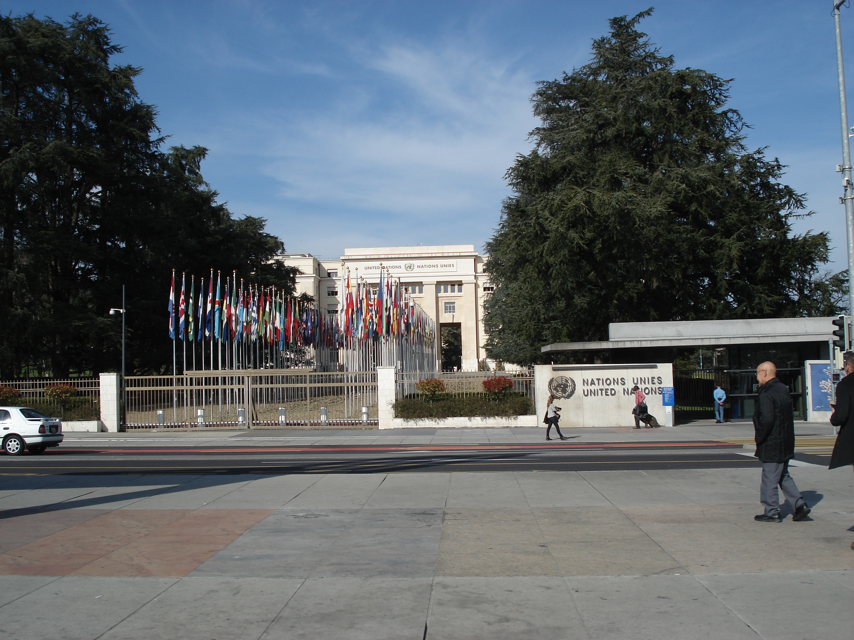 United Nations, Geneva